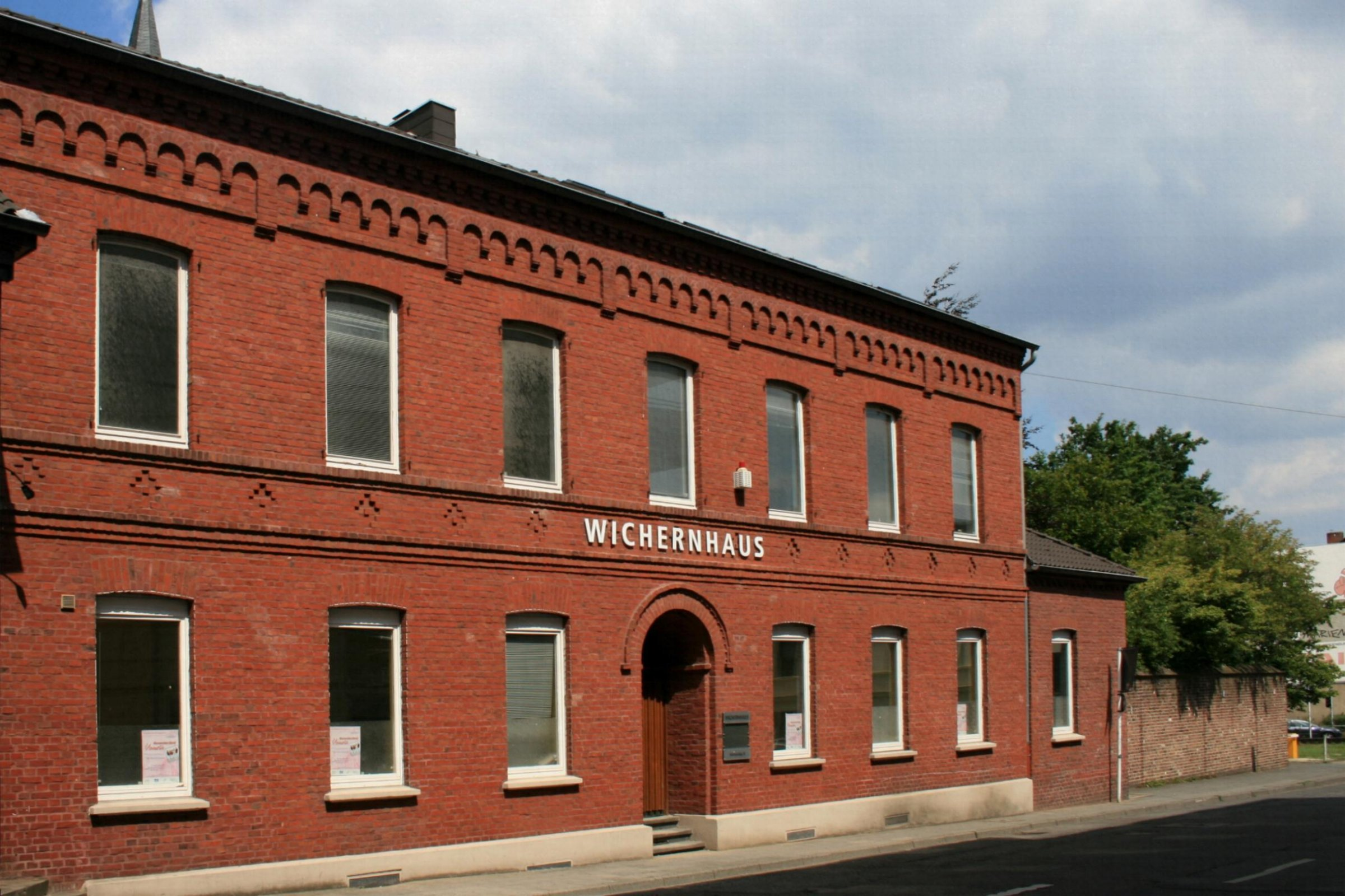 Cultural heritage monument No. M 014 in Mönchengladbach